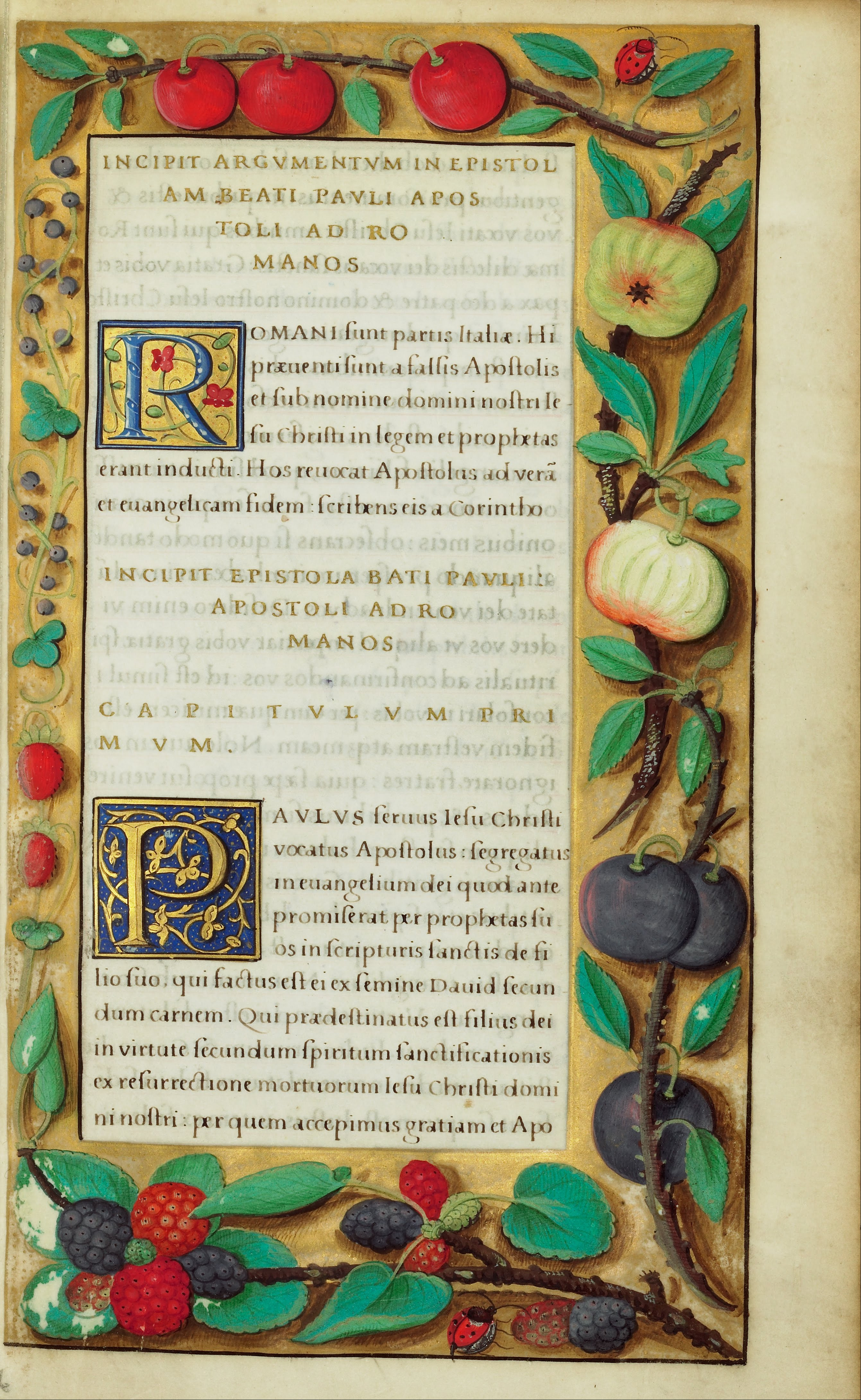 A text page from the Getty Epistles demonstrates the profound influence of the aesthetics of printed books on manuscripts of the 1500s. The page opens with a rubric, centered and written in spacious square capitals: INCIPIT ARGUMENTUM IN EPISTOLAM BEATI PAULI APOSTOLI AD ROMANOS. The prologue of Saint Paul's letter to the Romans follows, introduced by a large initial R within a square field. Square capitals in gold announce the main text in another rubric, and a large initial P begins the body of the letter. Italian printed books of the time, which featured more space between words, paragraphs, and different sections, than was traditional in earlier manuscripts, inspired the spaciousness of this presentation and the styles of script, including the large initials. The border design with fruits and flowers shows the influence of contemporary Flemish manuscript illumination.